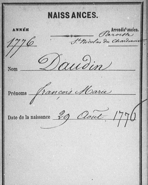 Birth Certificate François Marie Daudin (1776-1804)